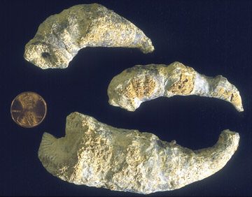 Caption from KGS website: These Pennsylvanian rugose corals belong to the genus Caninia torquia, from the Beil Limestone Member, Lecompton Limestone, Douglas County, Kansas. Other information From copyright page: The user is granted the right, without any fee or cost, to access, link to and use, publish, distribute, disseminate, transfer, or in any manner alter, modify, revise, copy, edit, or digitize this information. It is unlawful to falsely claim copyright or other rights in KGS material. The user must include an appropriate citation crediting the source of all or any portion of this website and its contents as follows: "The source of this material is the Kansas Geological Survey website at All Rights Reserved." If the user does reuse or redistribute information contained on this site, the user acknowledges that KGS or its affiliates, retains a nonexclusive, royalty-free, perpetual, irrevocable, and full right to use, reproduce, modify, adapt, publish, translate, create derivative works from, distribute, and display the original information throughout the world in any media. KGS expressly disclaims the applicability of the Uniform Computer Information Transactions Act (UCITA).